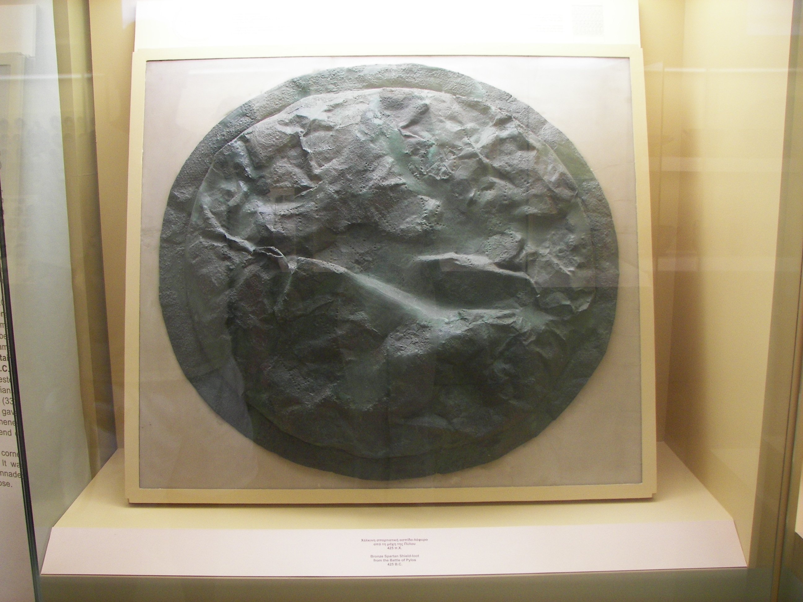 Bronze Spartan Shield-loot from the Battle of Pylos, 425 B.C.